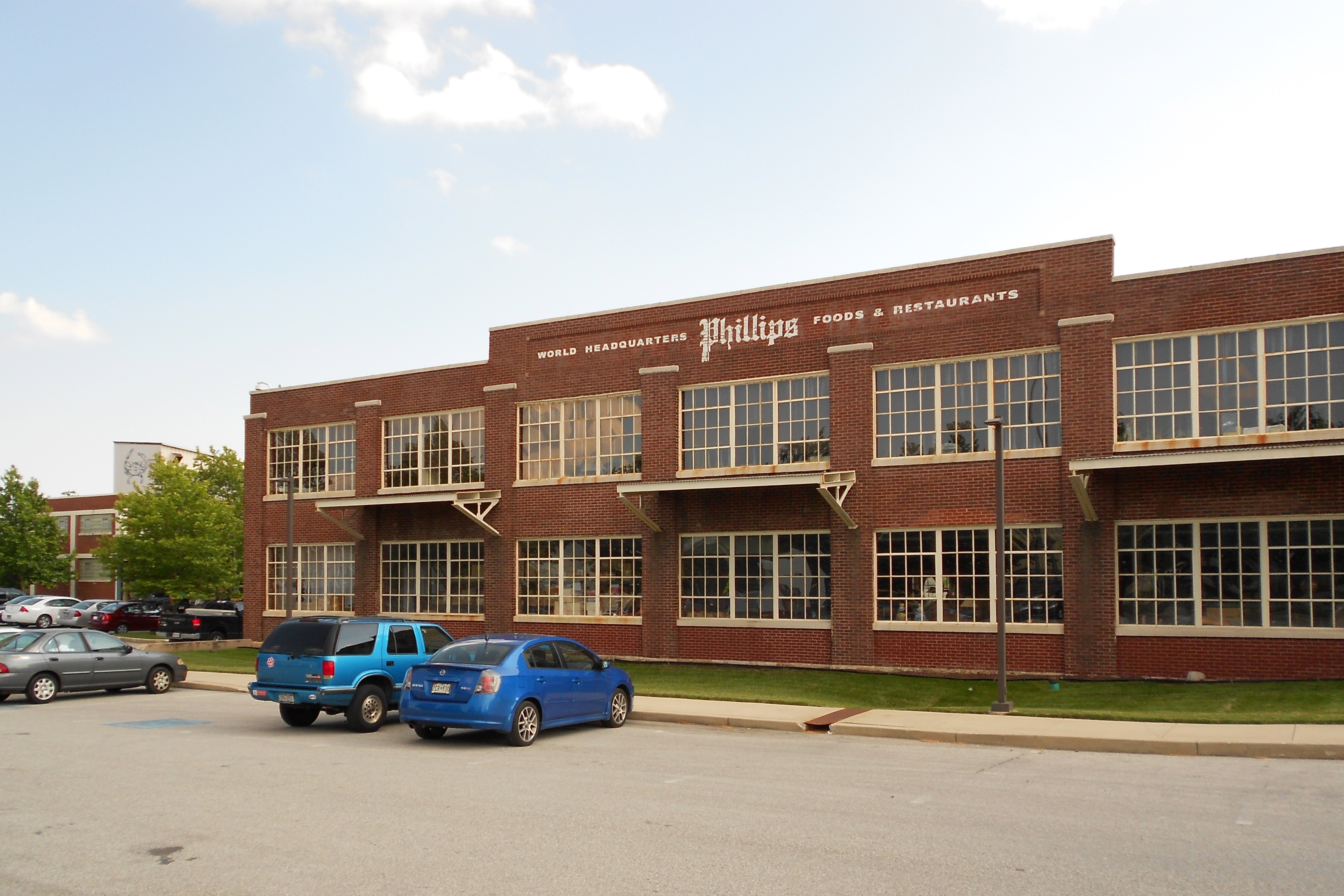 Coca Cola building on NRHP in Locust Point, Baltimore, Maryland